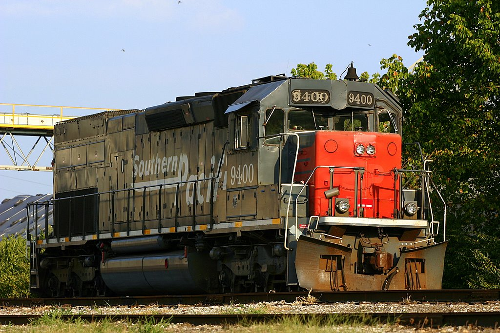 my fav railroad / and with the sun shining on it, you can read the SP on the front. Indiana and Ohio Railroad, west of Cincy Southern Pacific Railroad #9400, EMD SD45T-2